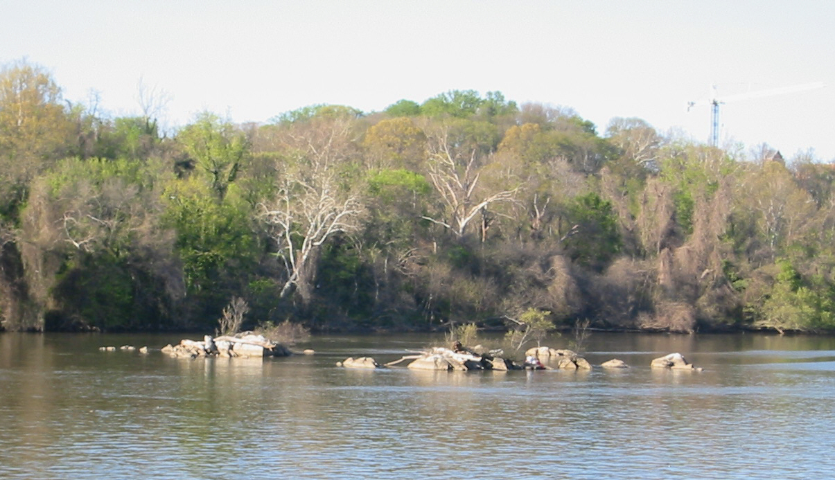 The Three Sisters are the smallest named islands in the District of Columbia.